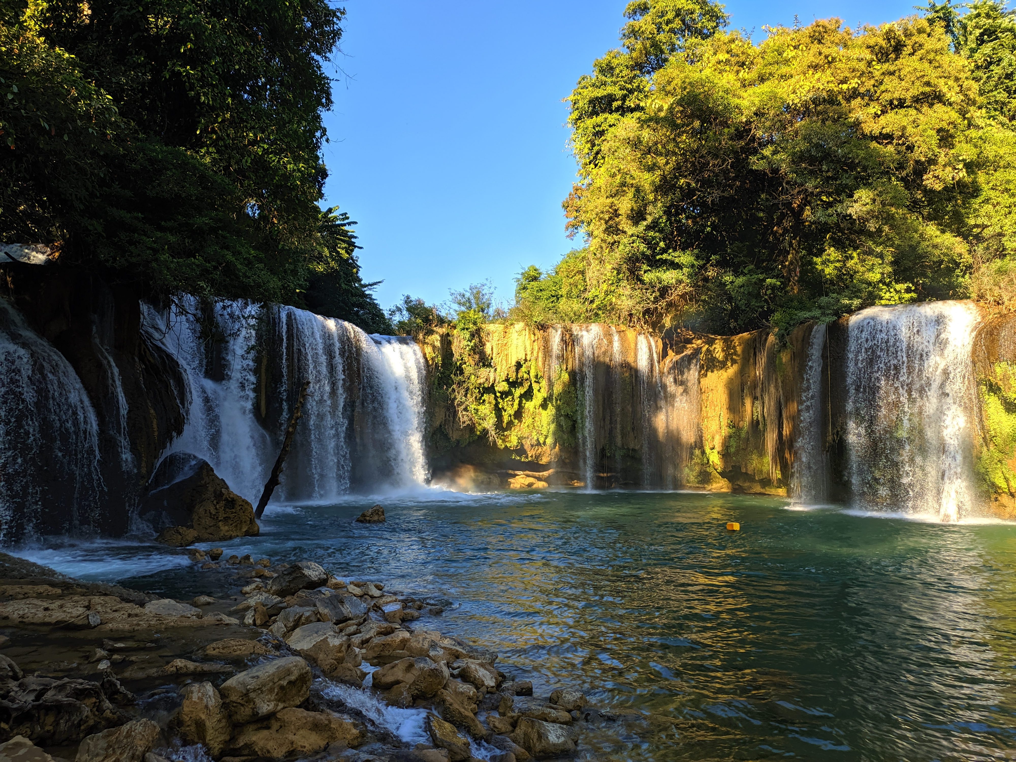 Kyone Htaw Waterfallမြန်မာဘာသာ: ကျုံထော်ရေတံခွန်